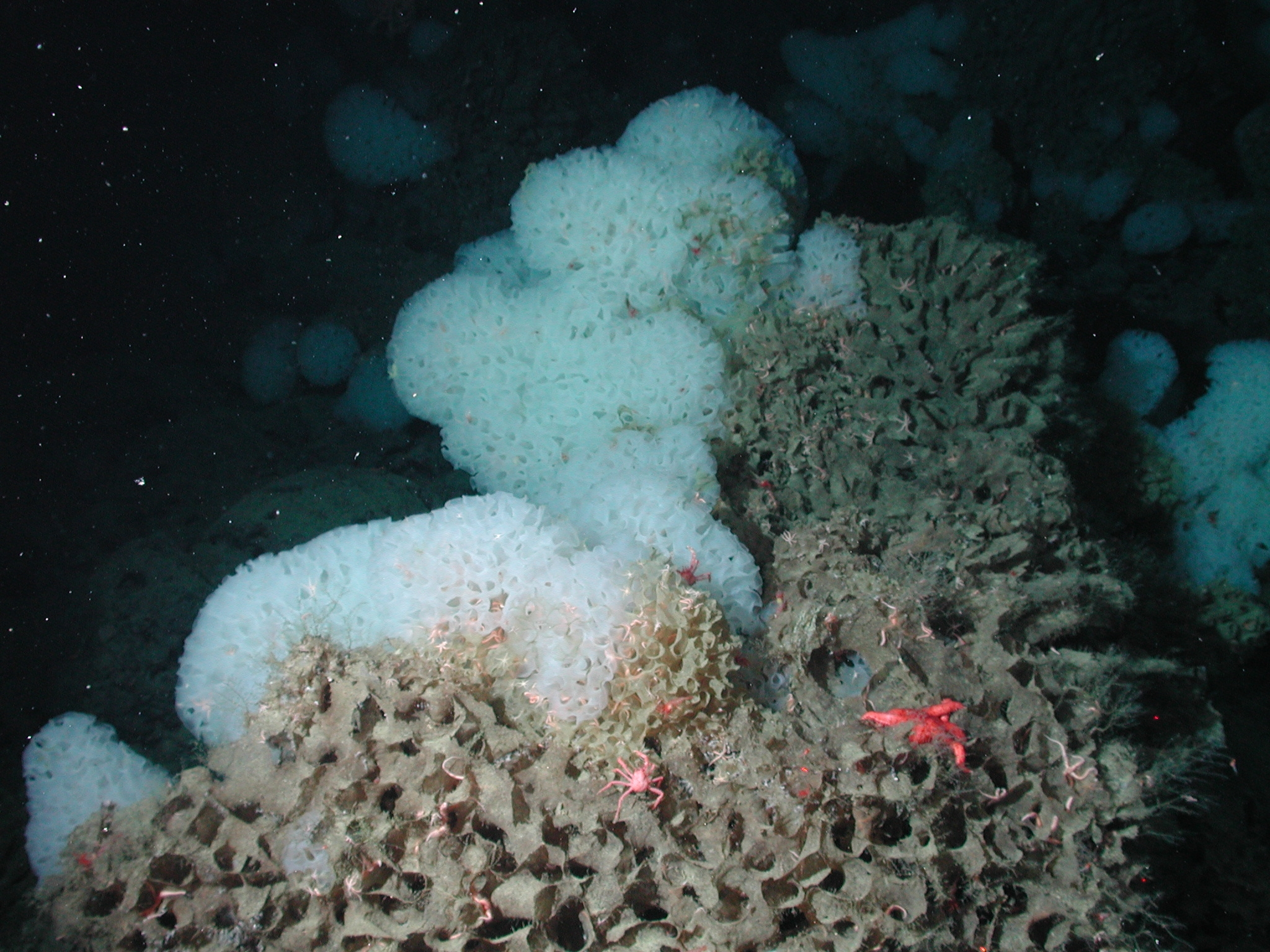 White ruffle sponge (Farrea sp.) 2002 May 21.